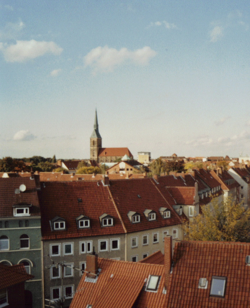 Saint Andrew's Church, Hildesheim